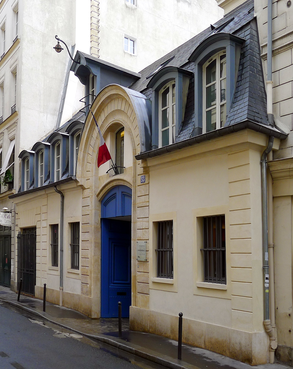 Verneuil street - Paris